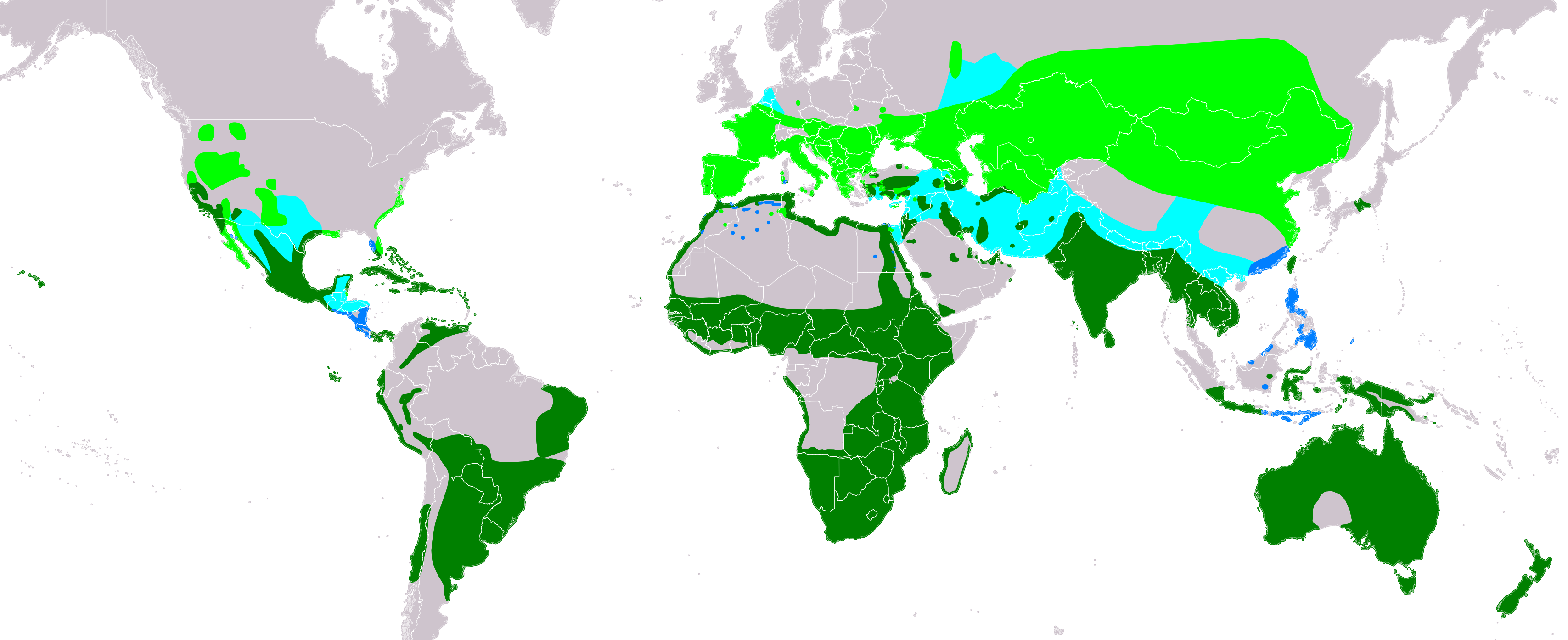 Distribution map of Black-winged Stilt (Himantopus himantopus) according to IUCN version 2019-3; key: Legend: Extant, breeding (#00FF00), Extant, resident (#008000), Extant, passage (#00FFFF), Extant, non-breeding (#007FFF)